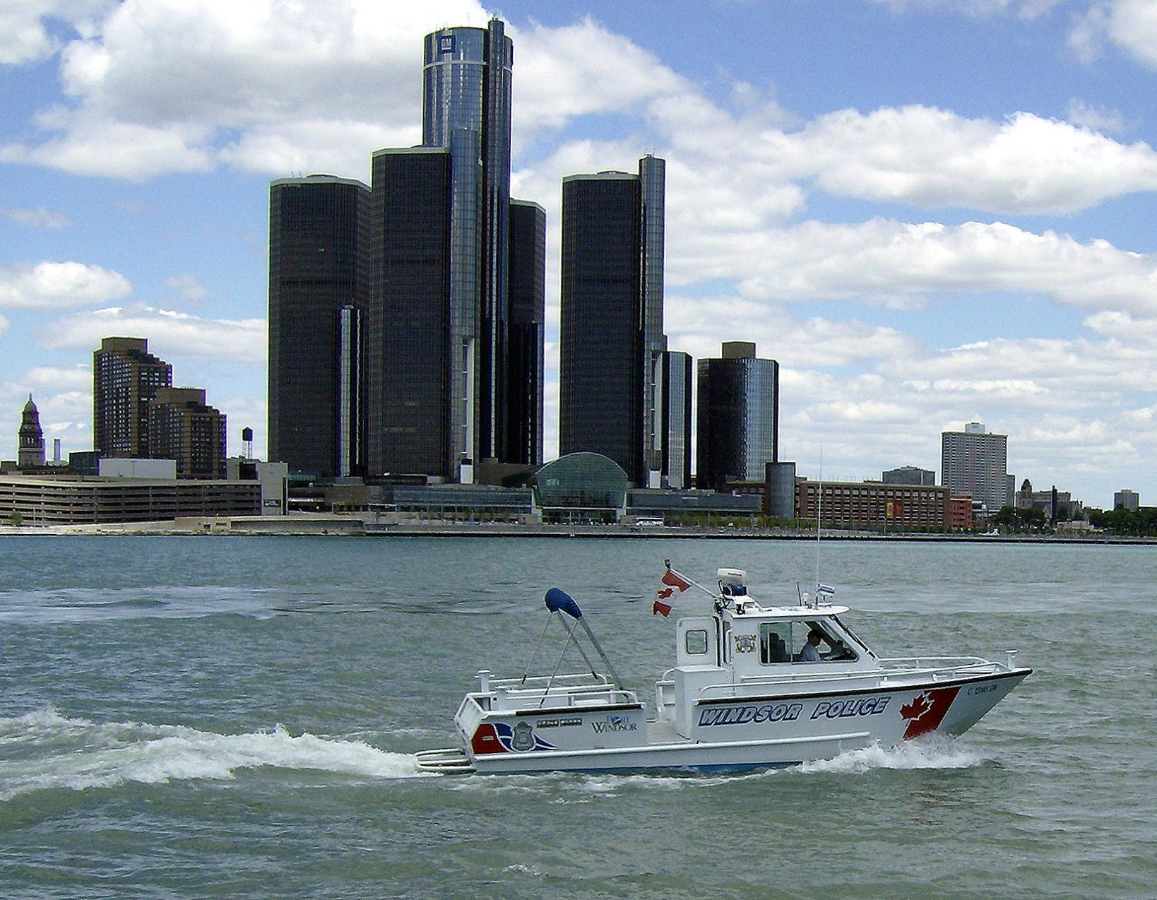 Windsor Police passing the Renaissance Center.